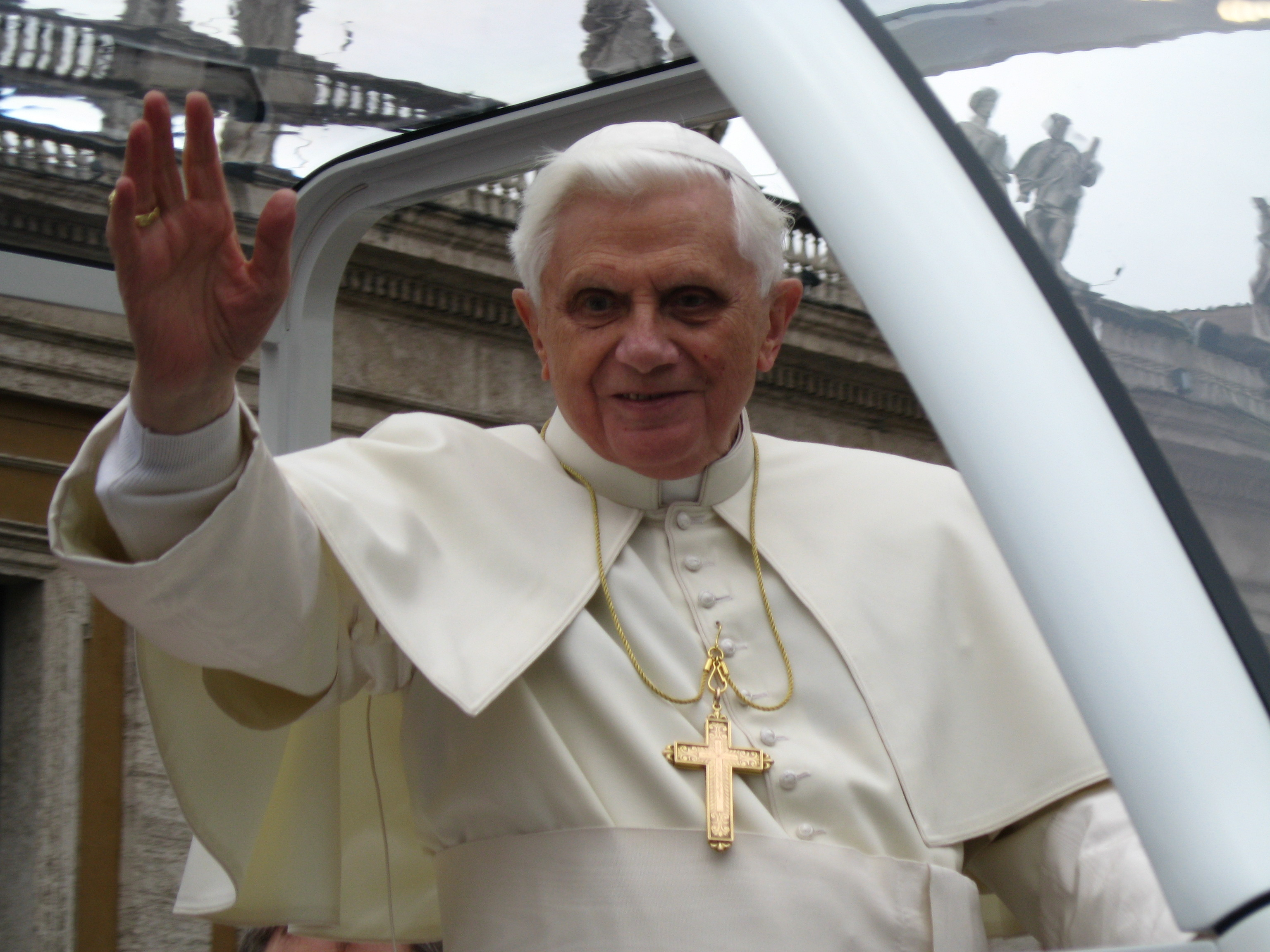 Pope Benedictus XVI during the general audience in S. Peter, Vatican City on the 26th March, 2008.